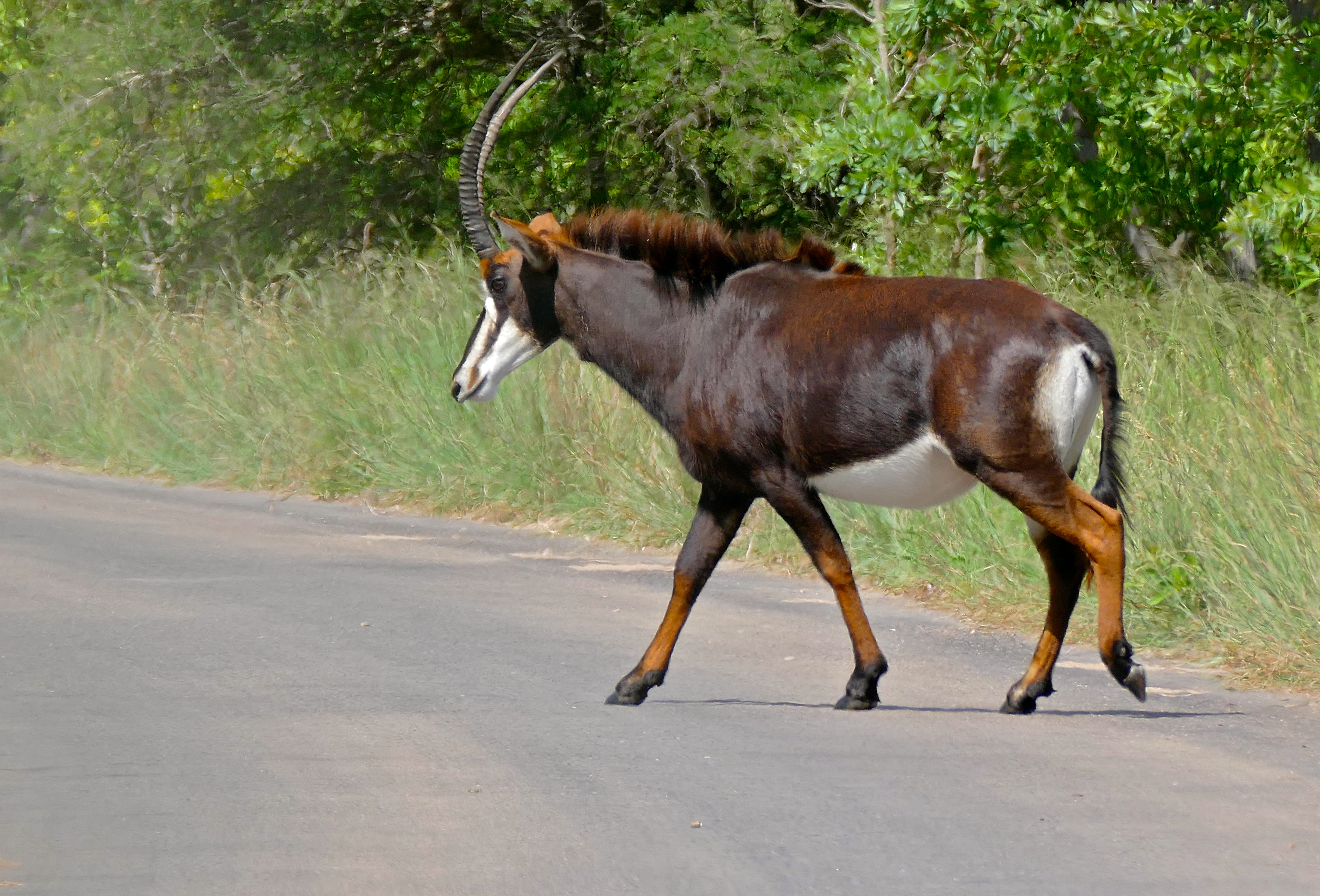 H1-2 Road West of Tshokwane, Kruger NP, SOUTH AFRICA